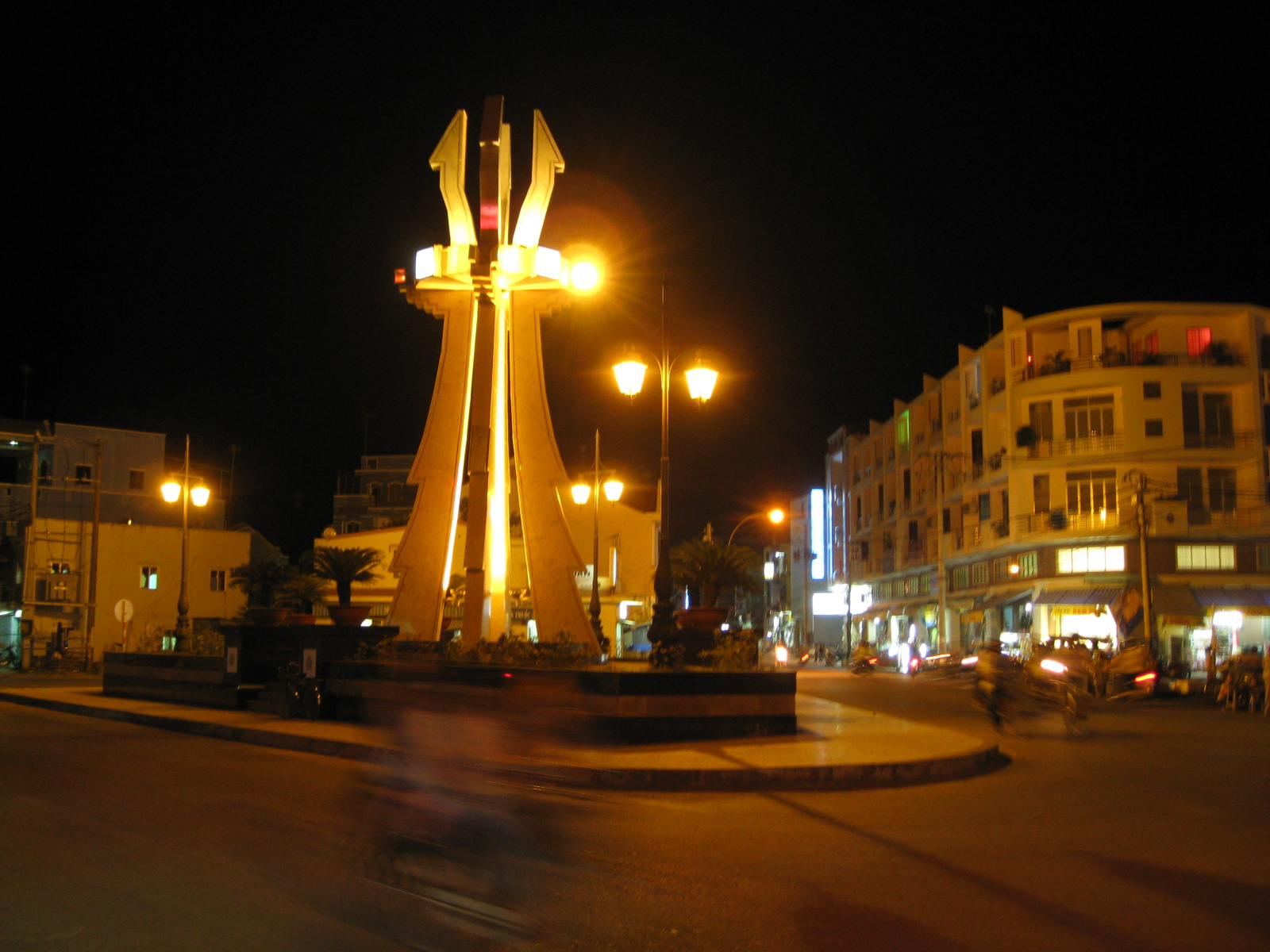 ha tien, vietnam